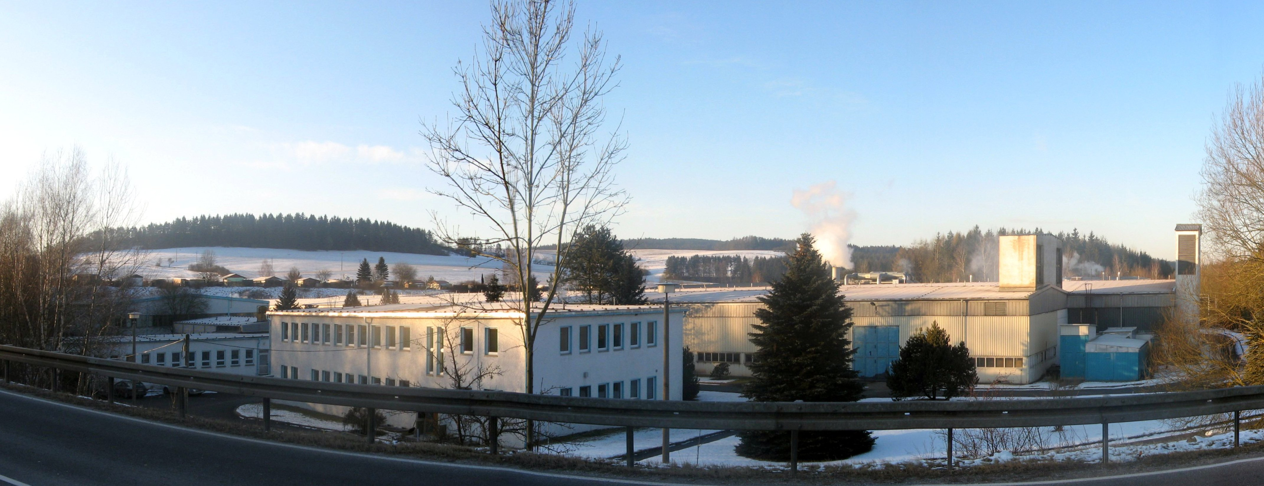 P-D Glasfaser Brattendorf - Brattendorf, Thuringia, Germany